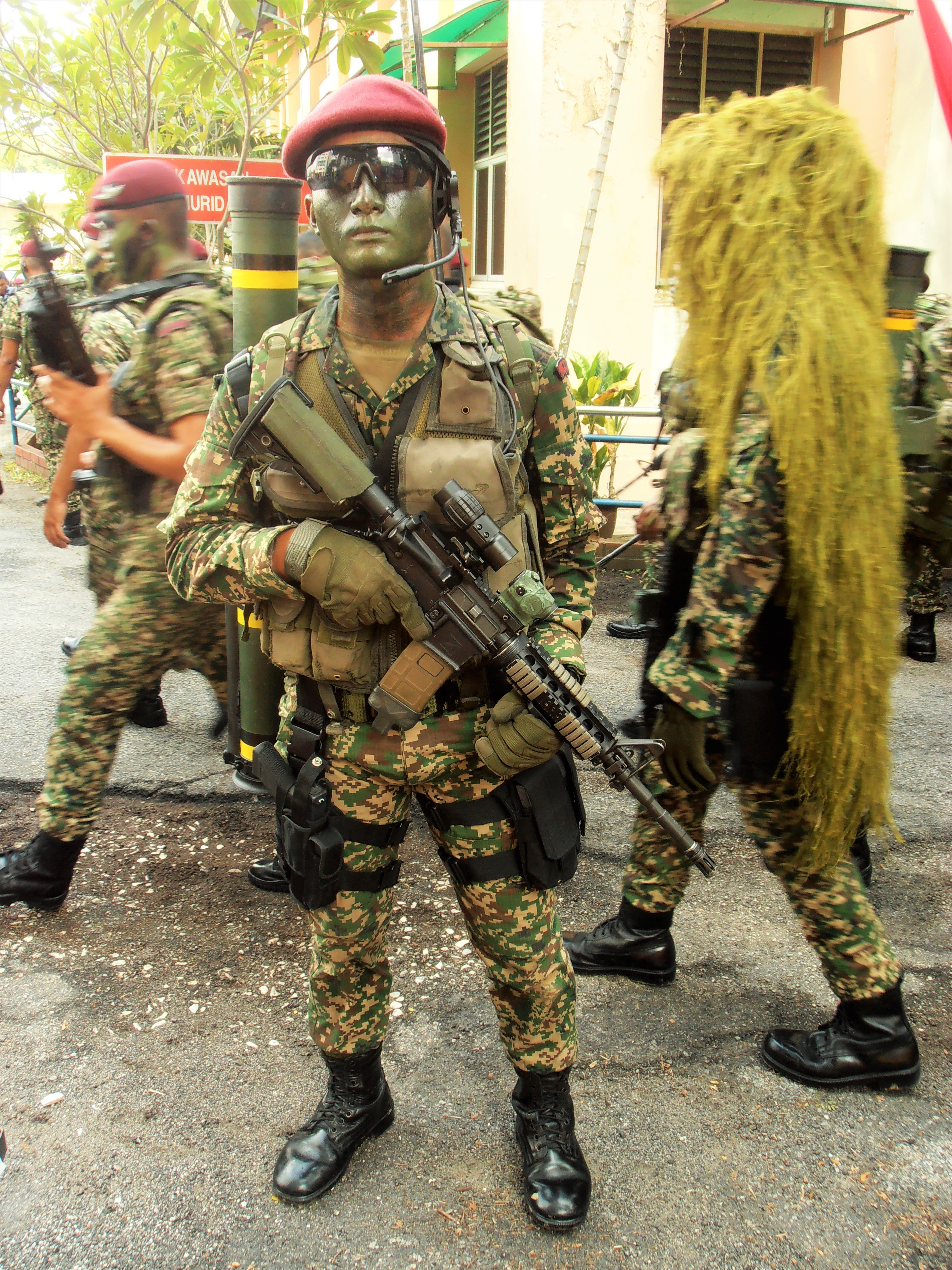 Soldier from 10 Paratrooper Brigade of Malaysian Army holding his M4A1 Carbine during the 59th Merdeka Day in Kuala Lumpur.